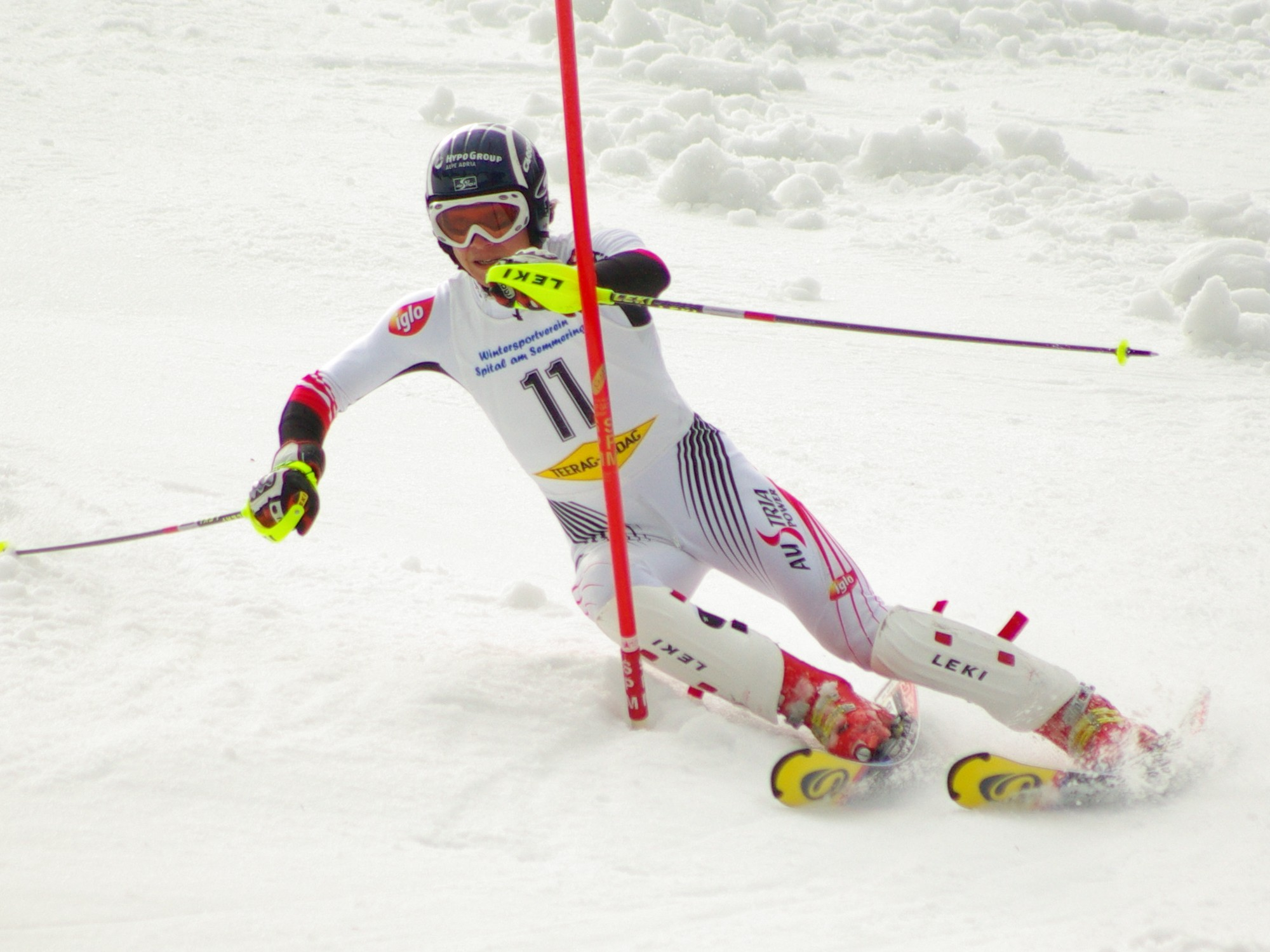 Austrian alpine skier Michael Sablatnik during the slalom run of the FIS super combined in Spital am Semmering, Austria on 11 March 2008.